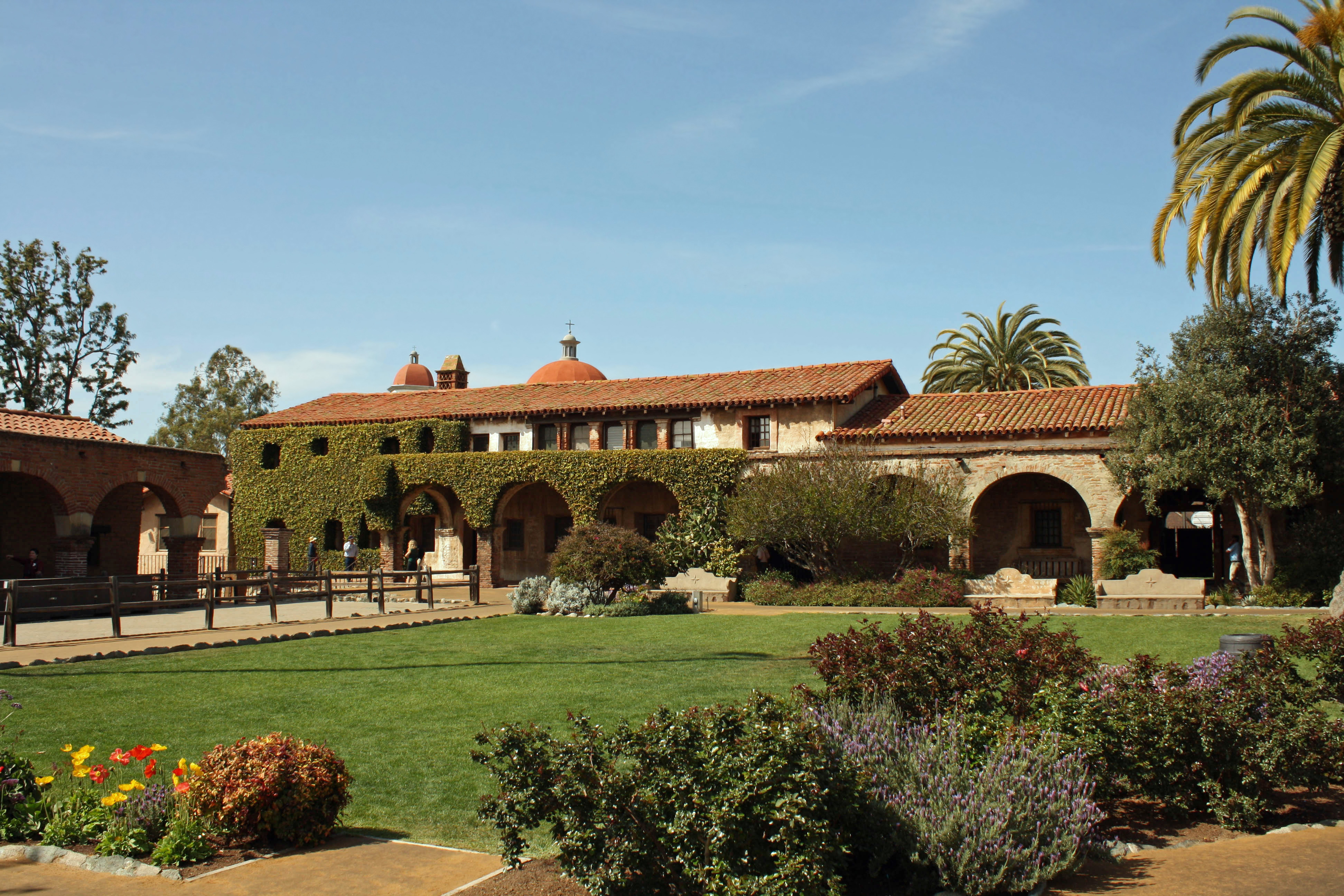 North Corridor of the Mission San Juan Capistrano, California